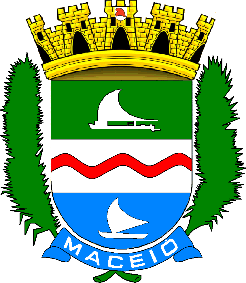 Coat of Arms of the city of Maceió, Alagoas state, Brazil. Own work, based on the description of the law of the creation of the coat of arms; Emerson})